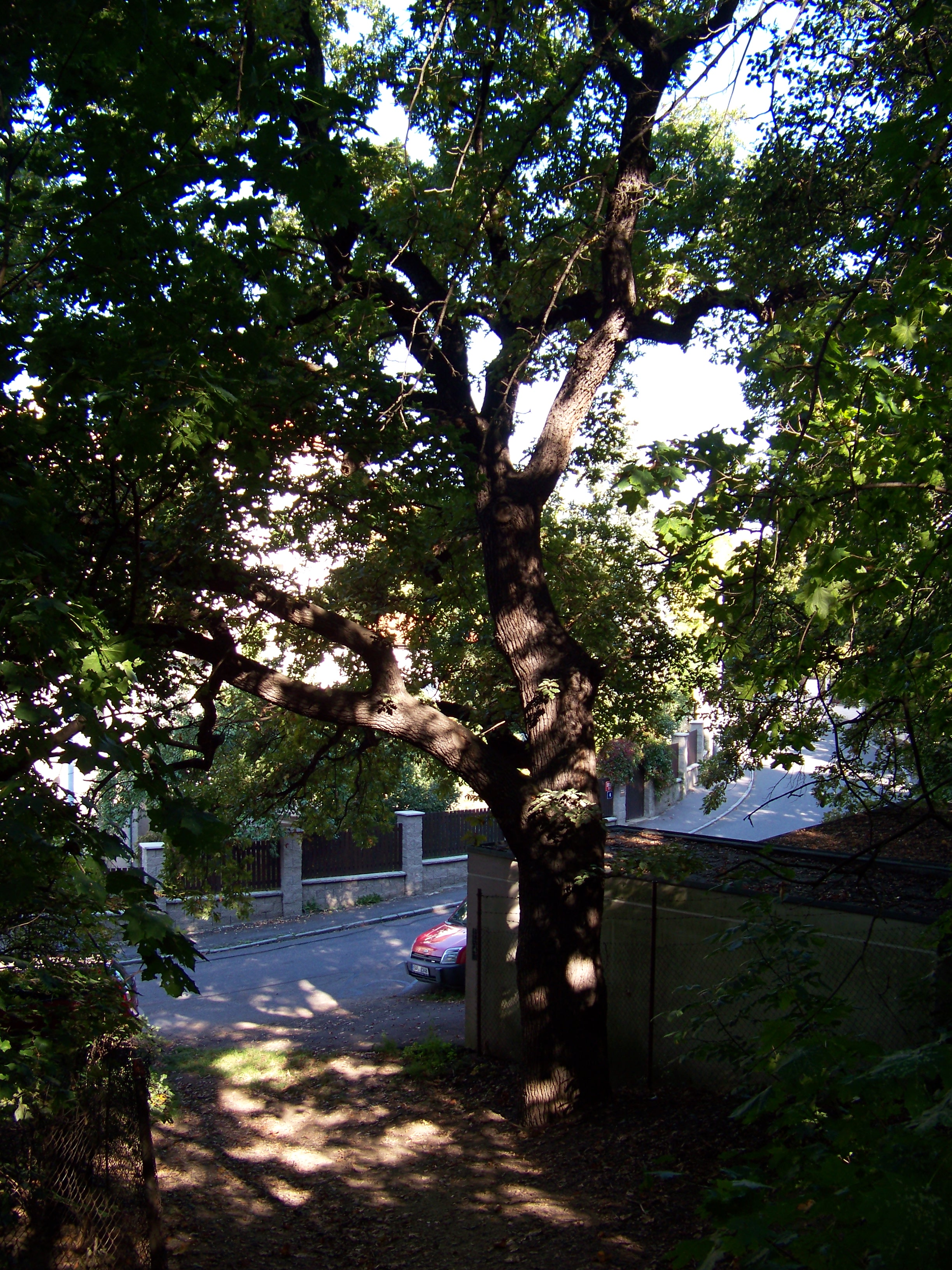 Prague-Smíchov, the Czech Republic. One of the memorable oaks at Na pláni street. - OpenStreetMap(Info)